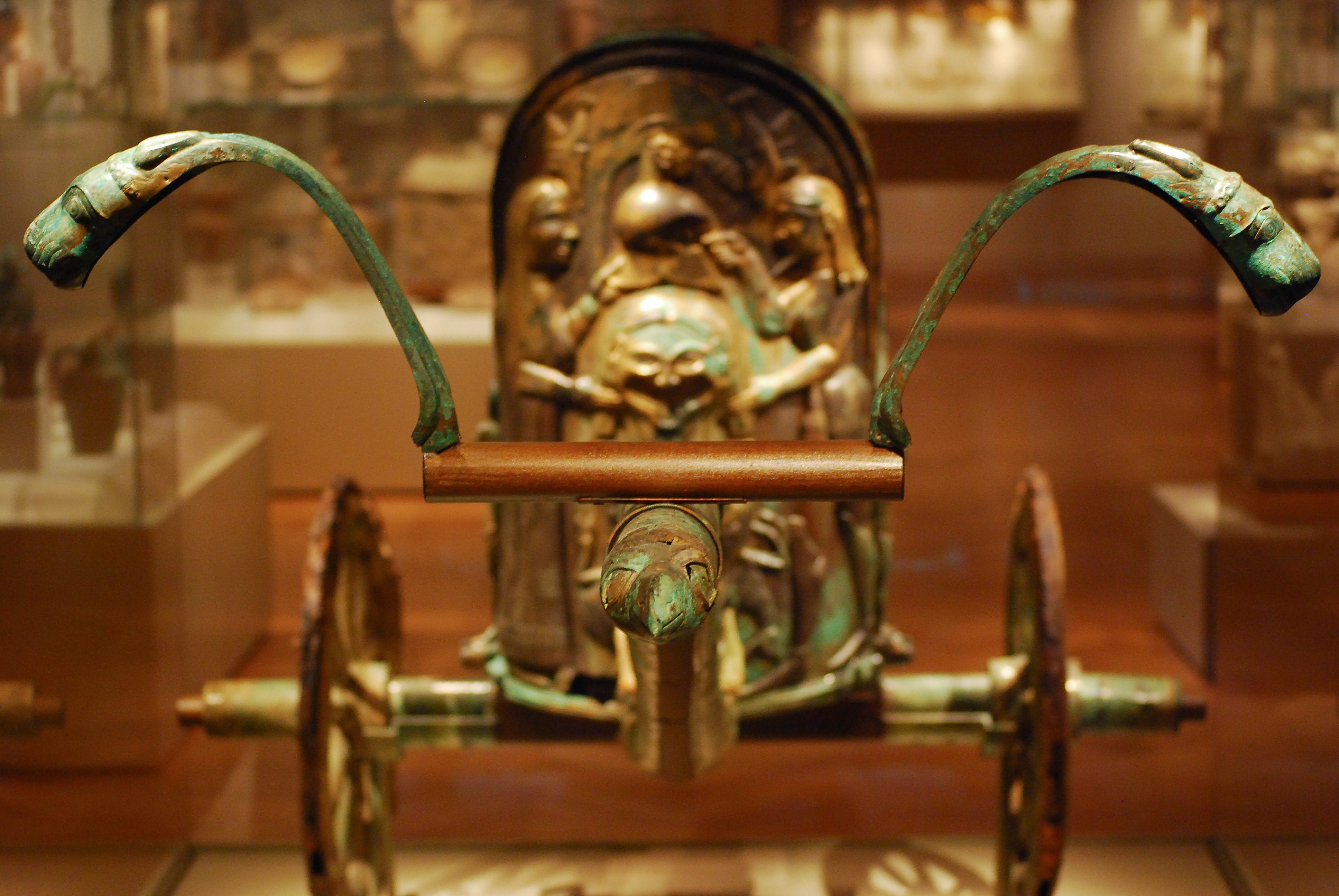 The Monteleone Chariot is an Etruscan chariot dated to ca. 530 BC. It was originally uncovered at Monteleone di Spoleto and is currently part of the collection of the Metropolitan Museum of Art in New York City. Though about 300 ancient chariots are known to still exist, only six are reasonably complete, and the Monteleone chariot is the best-preserved. (This summary was created using Commons SumItUp).